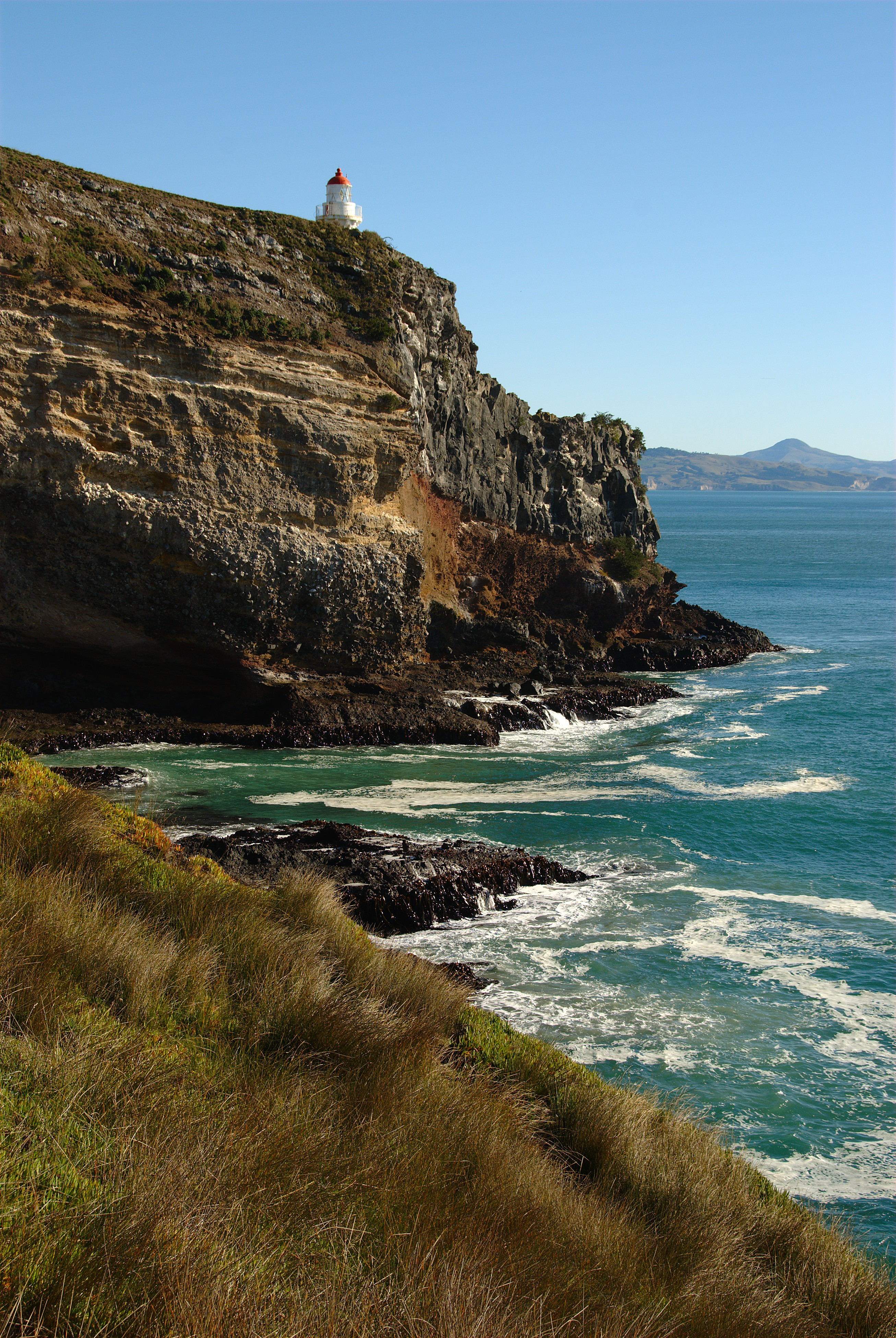 Taiaroa Head with lighthouse, New Zealand. The lighthouse is listed with the New Zealand Historic Places Trust, Register number: 2220.